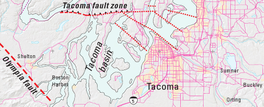 Map of the Tacoma (WA) fault zone. Extract of figure 1 from Pratt, et al., "Field and laboratory data from an earthquake history study of scarps in the hanging wall of the Tacoma fault, Mason and Pierce Counties, Washington", U.S. Geological Survey Scientific Investigations Map 3060, 2008.